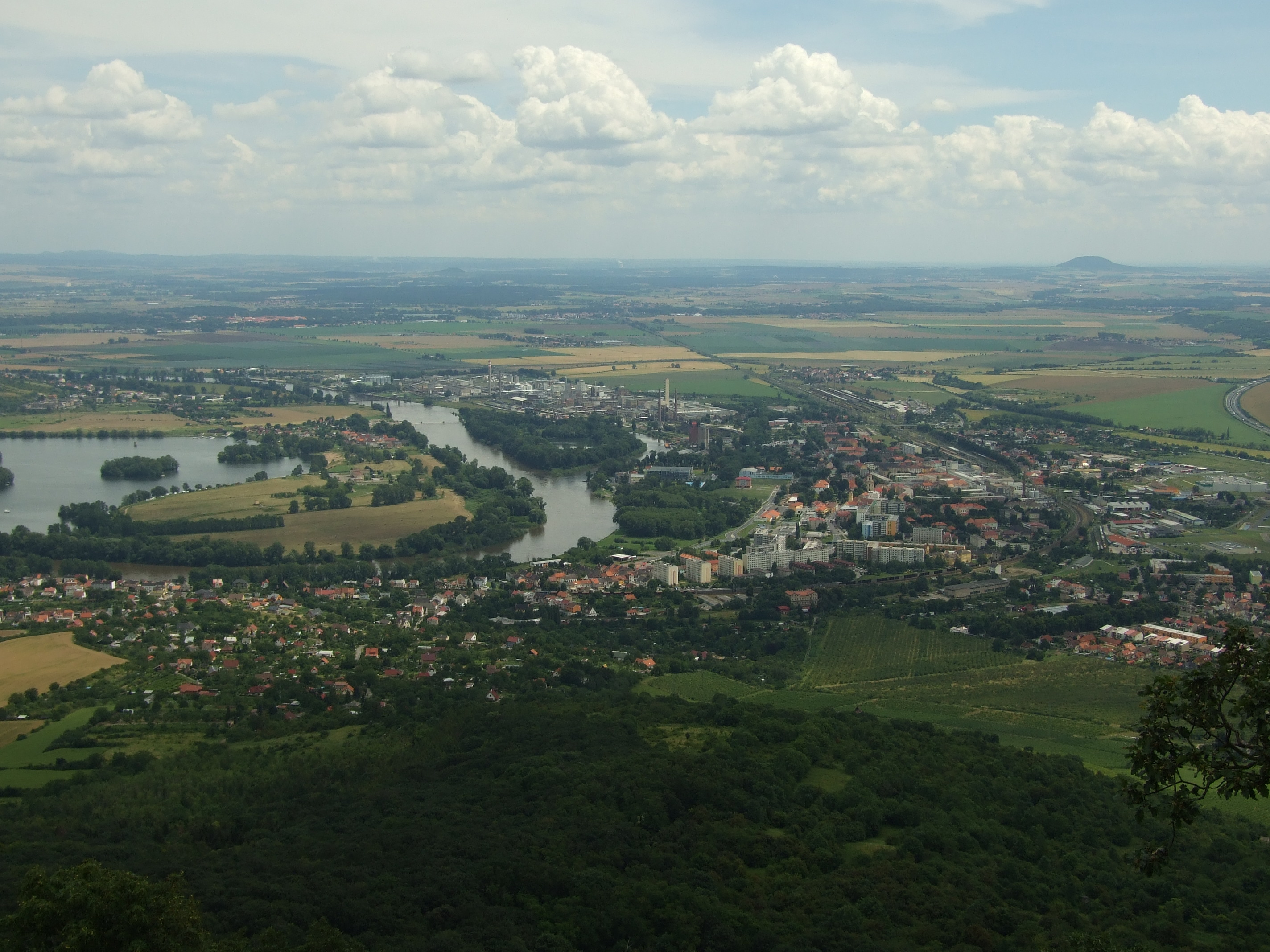 Czech countryside seen from Lovoš hill near Lovosice, Litoměřice district, Ústí nad Labem Region, CZ. City of Lovosice herehelp